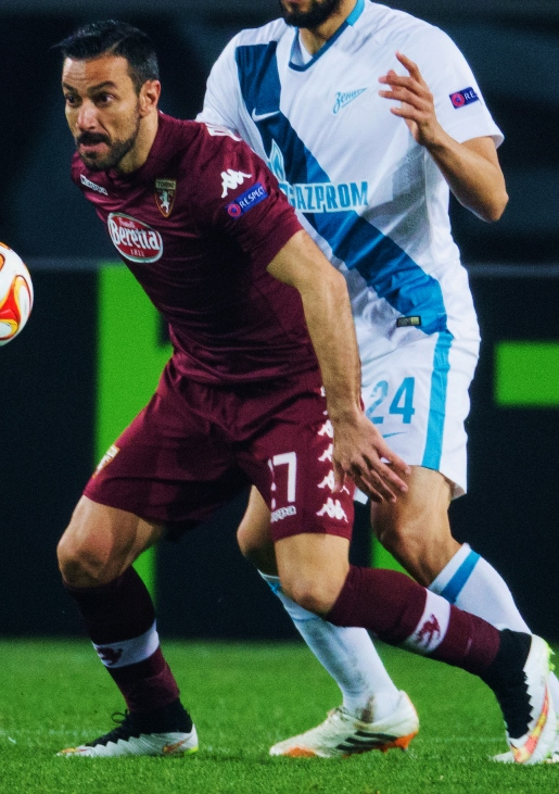 20.03.15. Италия, Турин, «Стадио Олимпико». Лига Европы УЕФА, 1/8 финала, «Торино» — «Зенит». Fabio Quagliarella